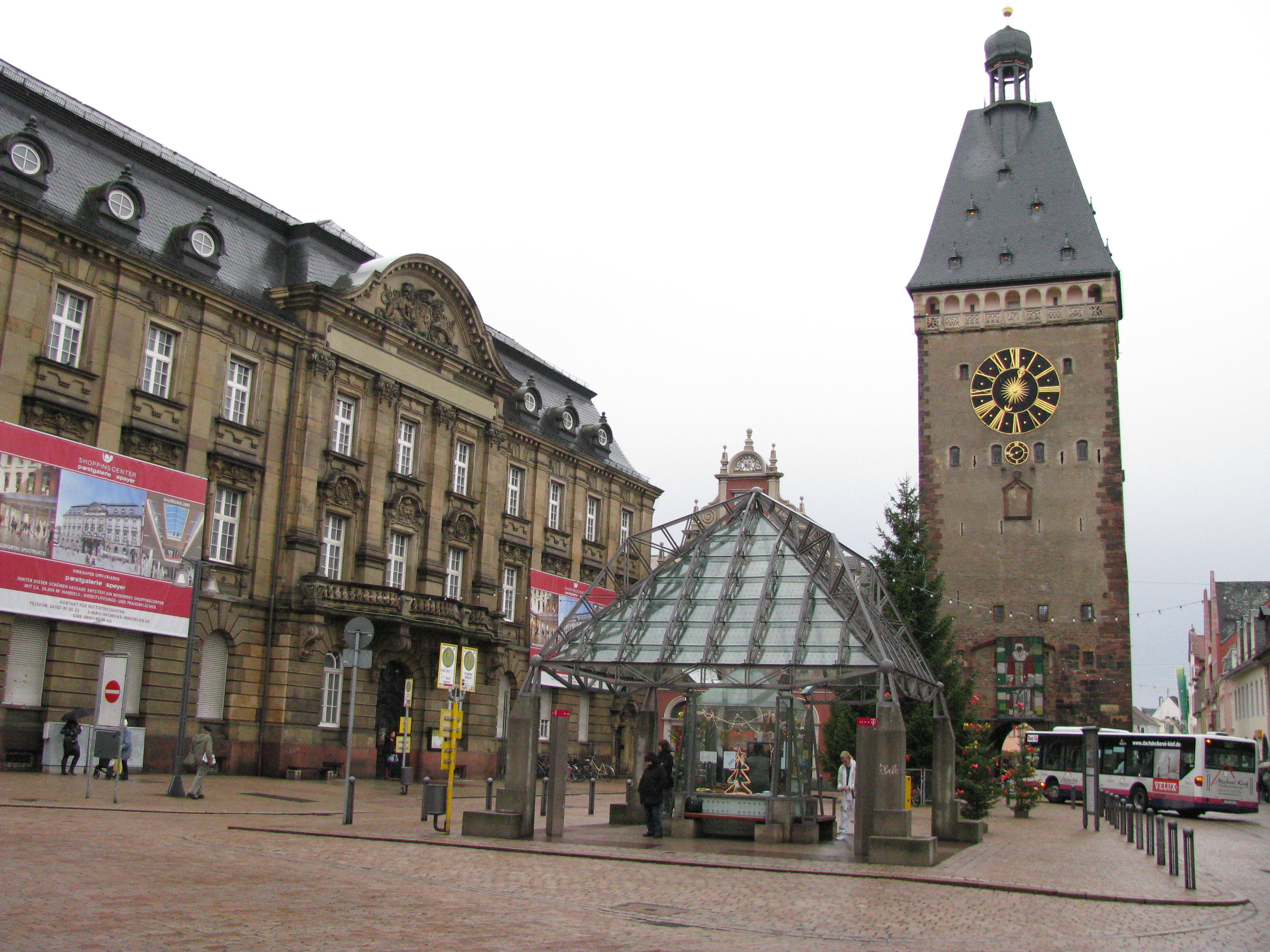 Postplatz (square in front of the old town gate "Altpörtel" and the former main post office of Speyer. Today the square is a main public transit junction. The modern structure in the centre is a combined pretzel stand and bus stop.